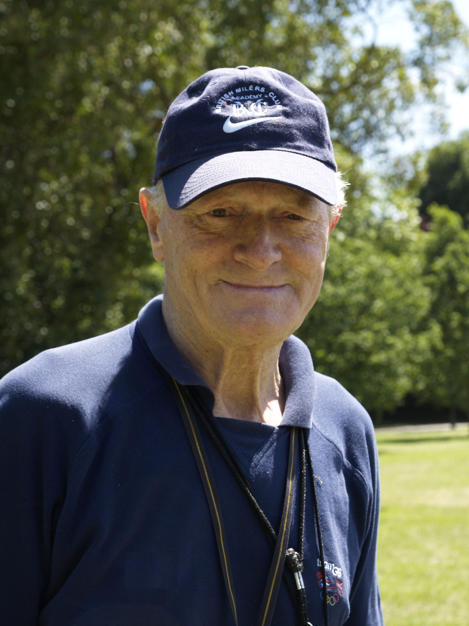 Frank Horwill - British Athletics Coach photographed at Battersea Park, London - his long-term training venue